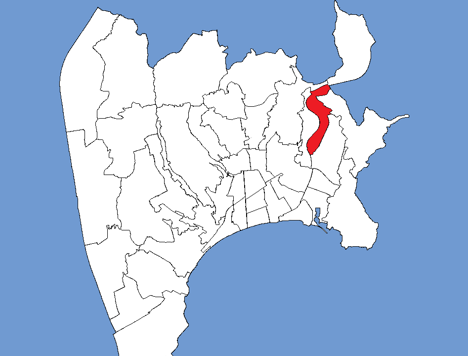 Location of the neighbourhood Roquebilliere in Nice